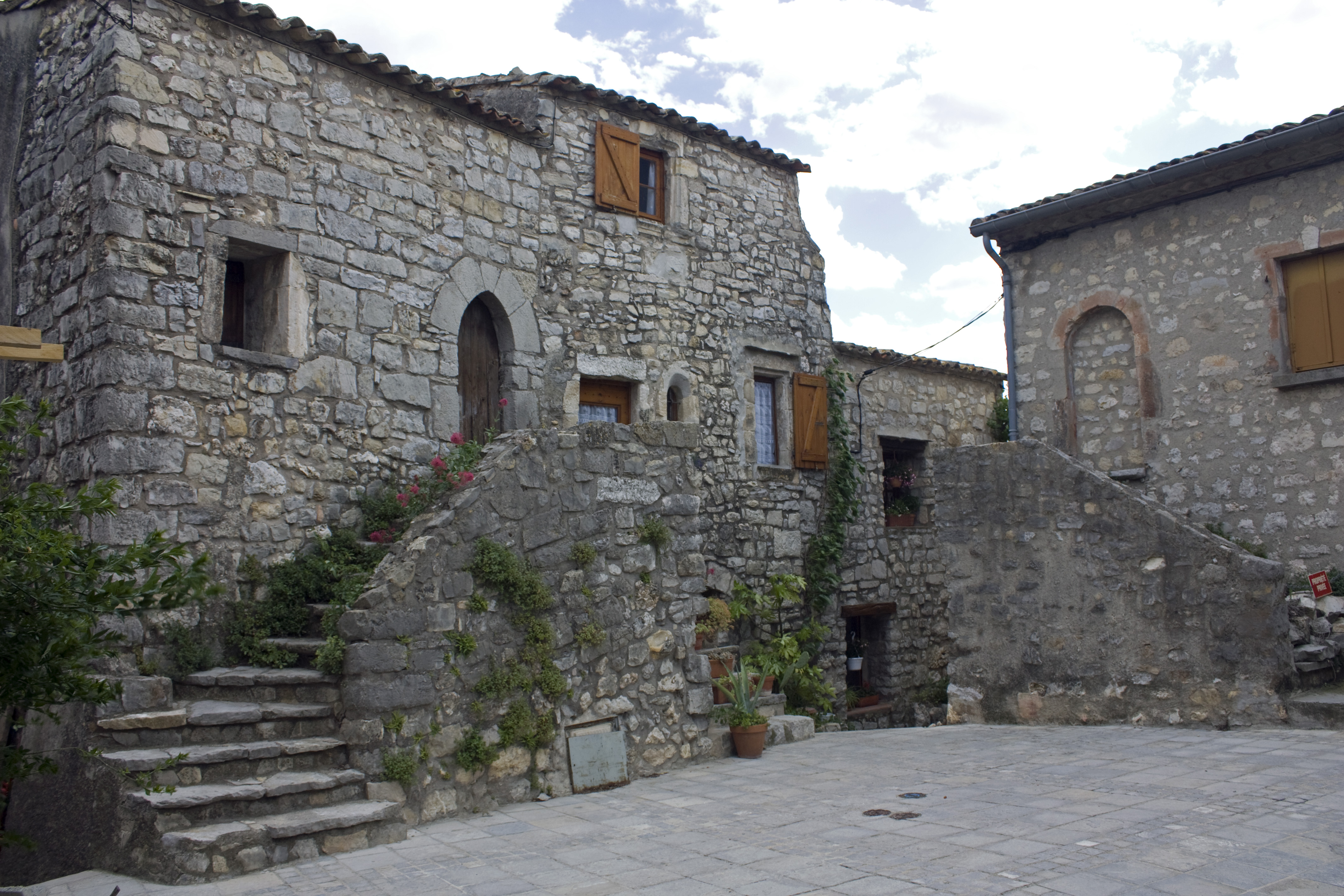 Castle courtyard.